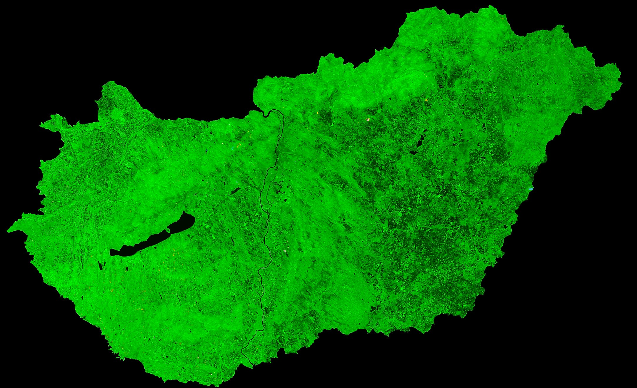 Title Hungary by Proba-V Released 15/02/2017 5:17 pm Copyright ESA/Belspo – produced by VITO, CC BY-SA 3.0 IGO Description Launched on 7 May 2013, Proba-V is a miniaturised ESA satellite tasked with a full-scale mission: to map land cover and vegetation growth across the entire planet every two days. This cloud-free image of Hungary, acquired by Proba-V on 19 July 2015, has a 300 m per pixel resolution and is composed of cloud, shadow, and snow/ice screened observations over a period of 1 day. Hungary is one of ESA’s 22 member states.